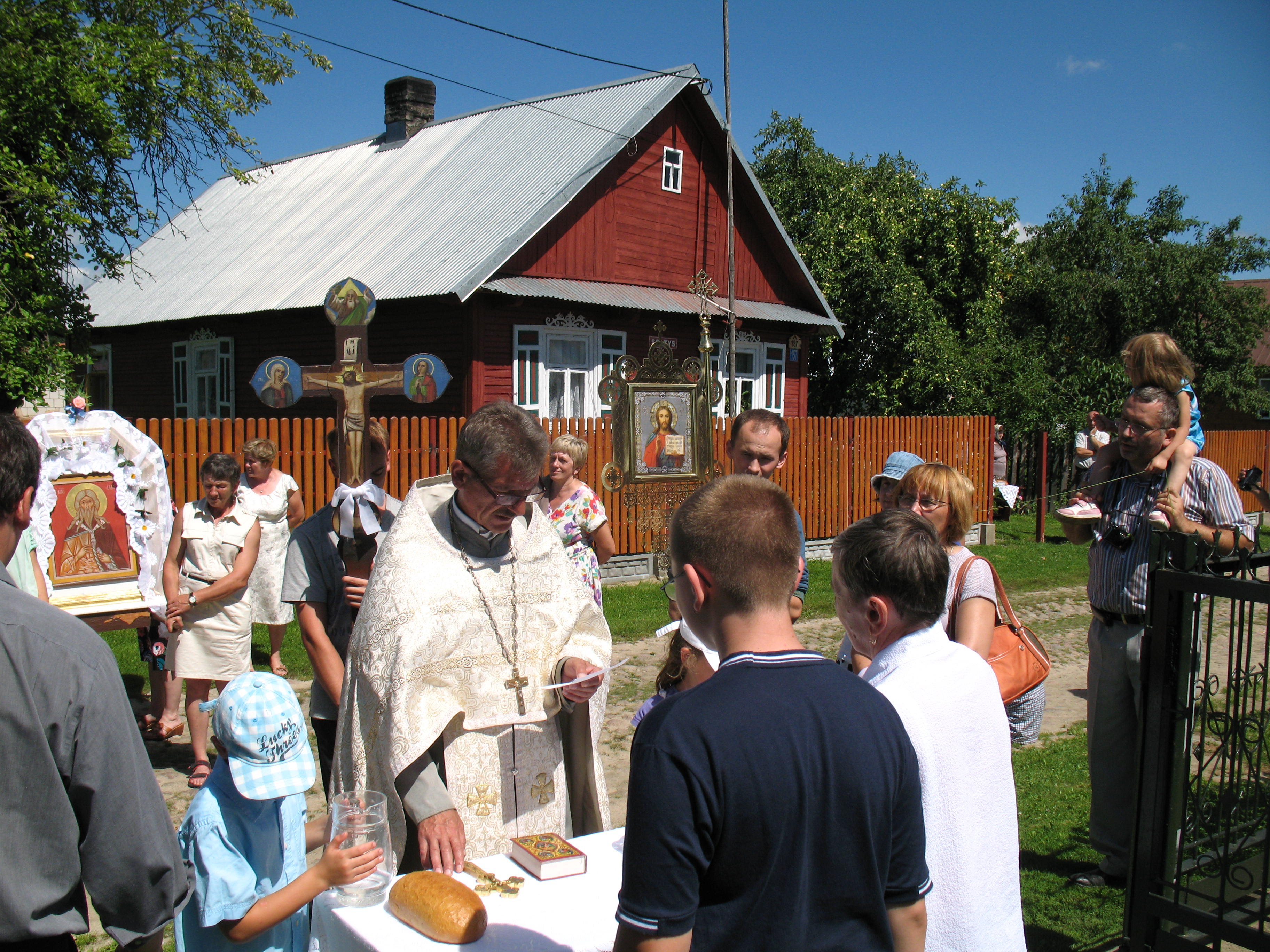 Procession in Soce.